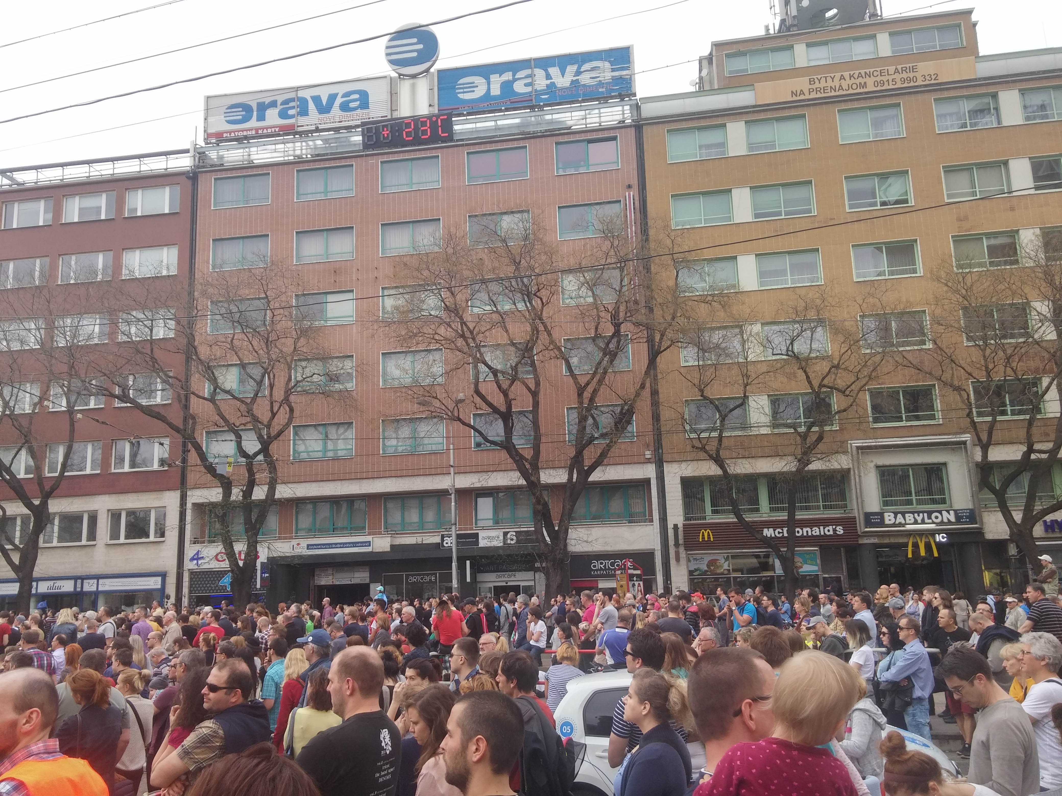 Anti government protests in Bratislava, Slovakia on 15 April 2018 on SNP Square (Námestie SNP)